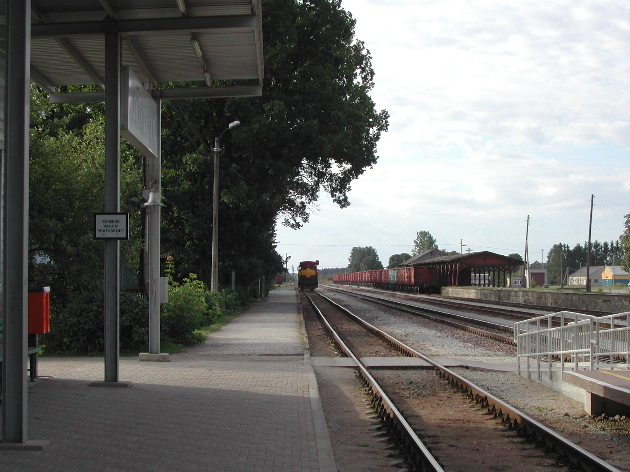 Train station of Jõgeva, Estonia